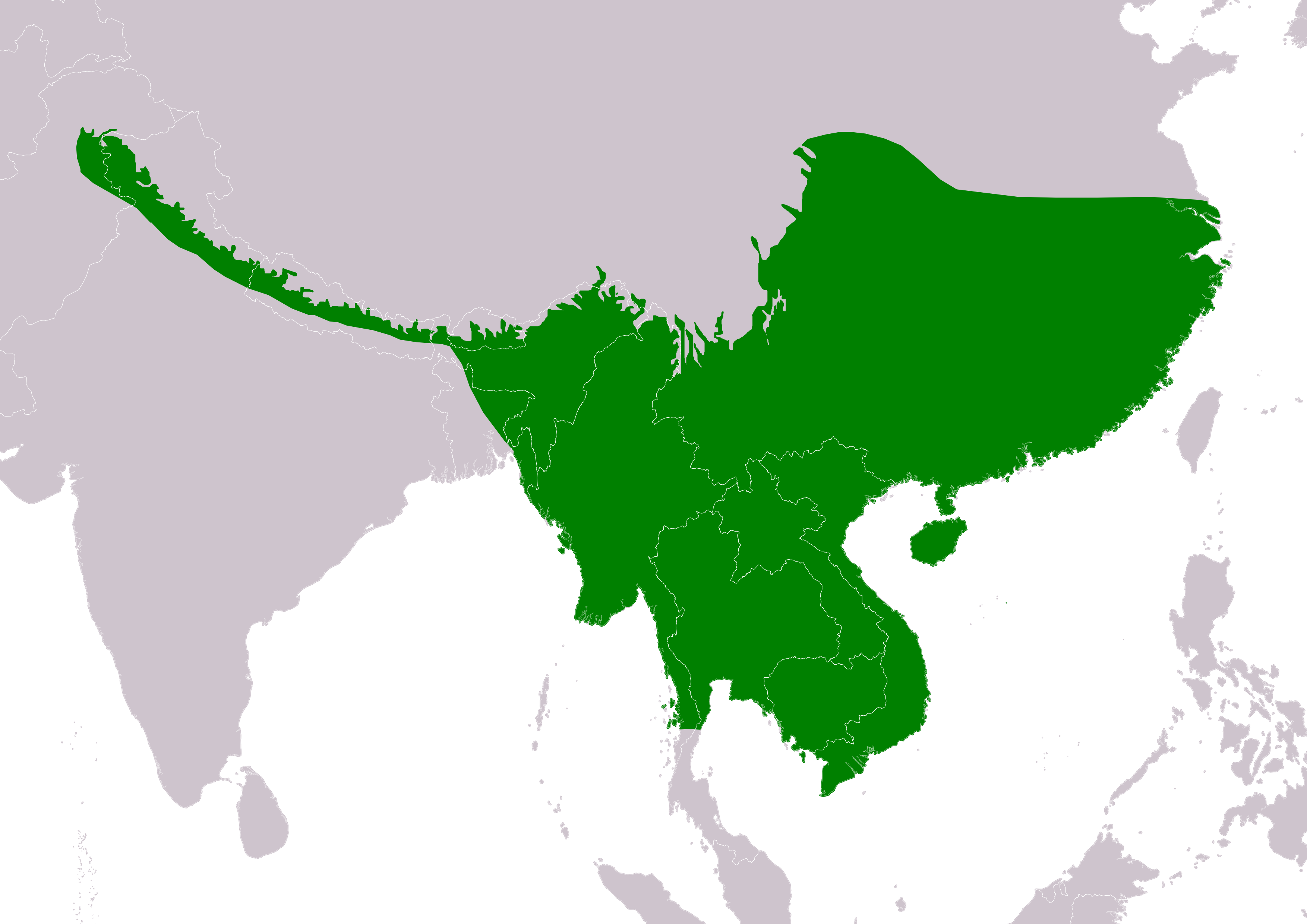 Distribution map of asian barred owlet (Glaucidium cuculoides) according to IUCN version 2019.2; key: Legend: Extant, resident (#008000)